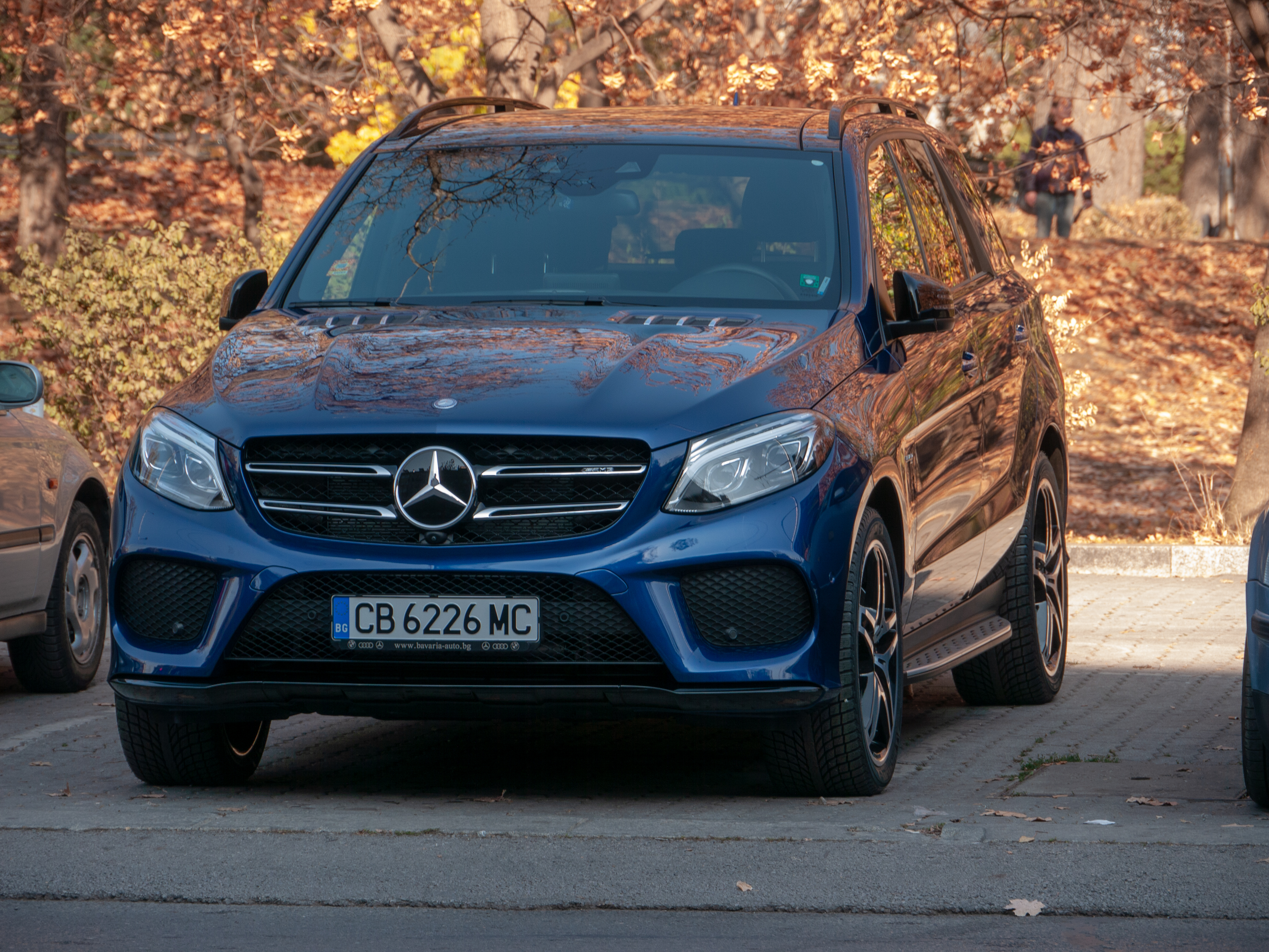 Mercedes-AMG GLE 43, Sofia, Bulgaria